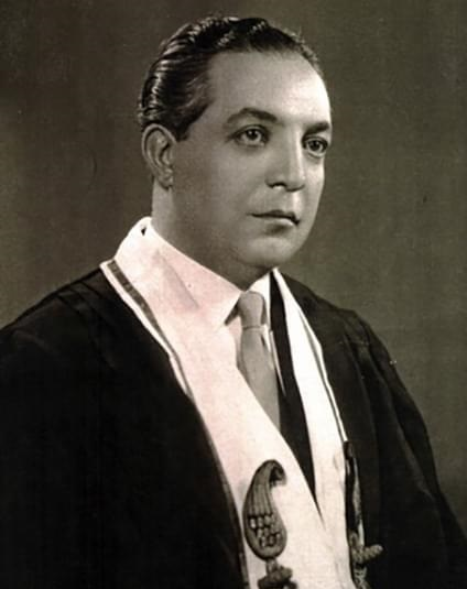 Karim Pirnia